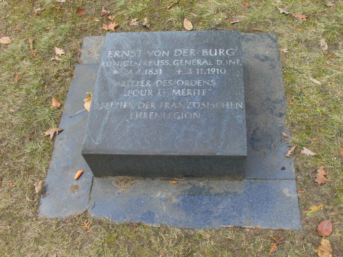 Grave of Ernst von der Burg